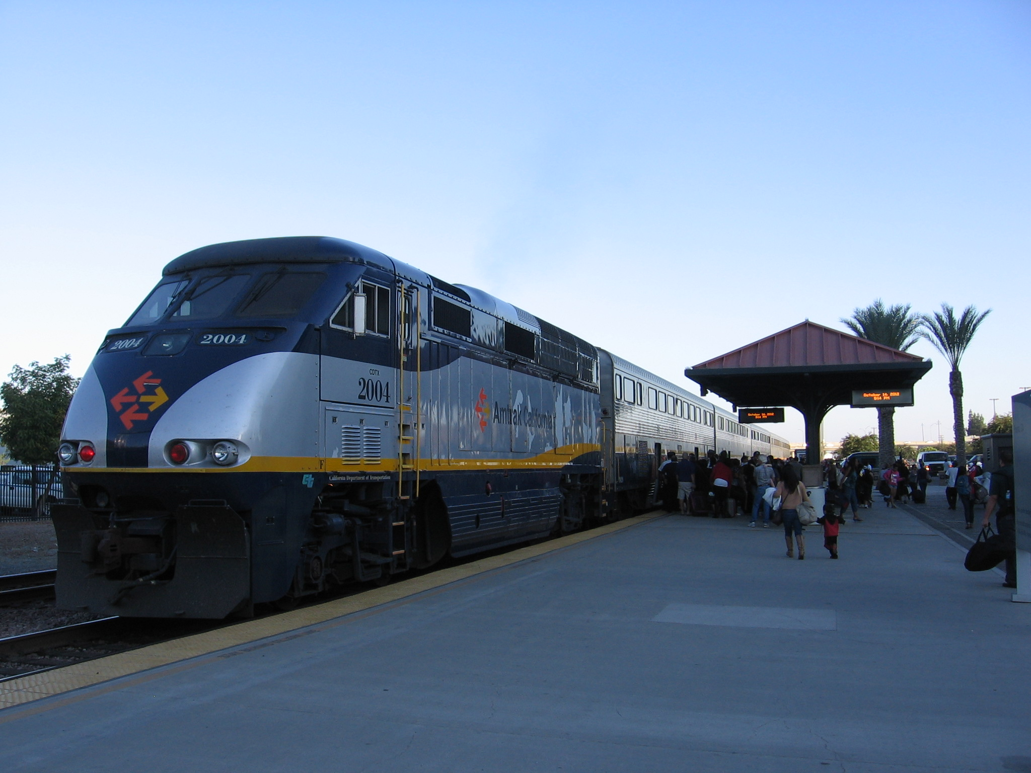 A San Joaquin train at Fresno, California, USA.